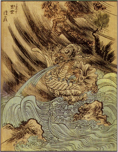 Shussebora (出世螺) from the Ehon Hyaku monogatari (絵本百物語)